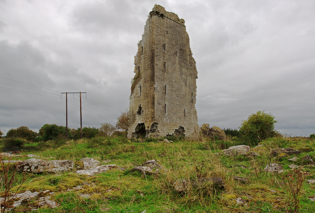 Castles of Munster: Derryowen, Clare Located in a remote area near the Burren National Park to the NE of Templebannagh Lough, parts of the SE and SW walls still stand six storeys high. Although in O'Shaugnessy territory, it was acquired by George Cusack in 1589. He was killed in 1599 by the O'Briens of Leamaneh in revenge for ordering the execution of Donogh O'Brien in 1582 (when he was sherriff of Clare). Visible is an opening in the facing corner called an angle loop, through which muskets or missiles could be fired.